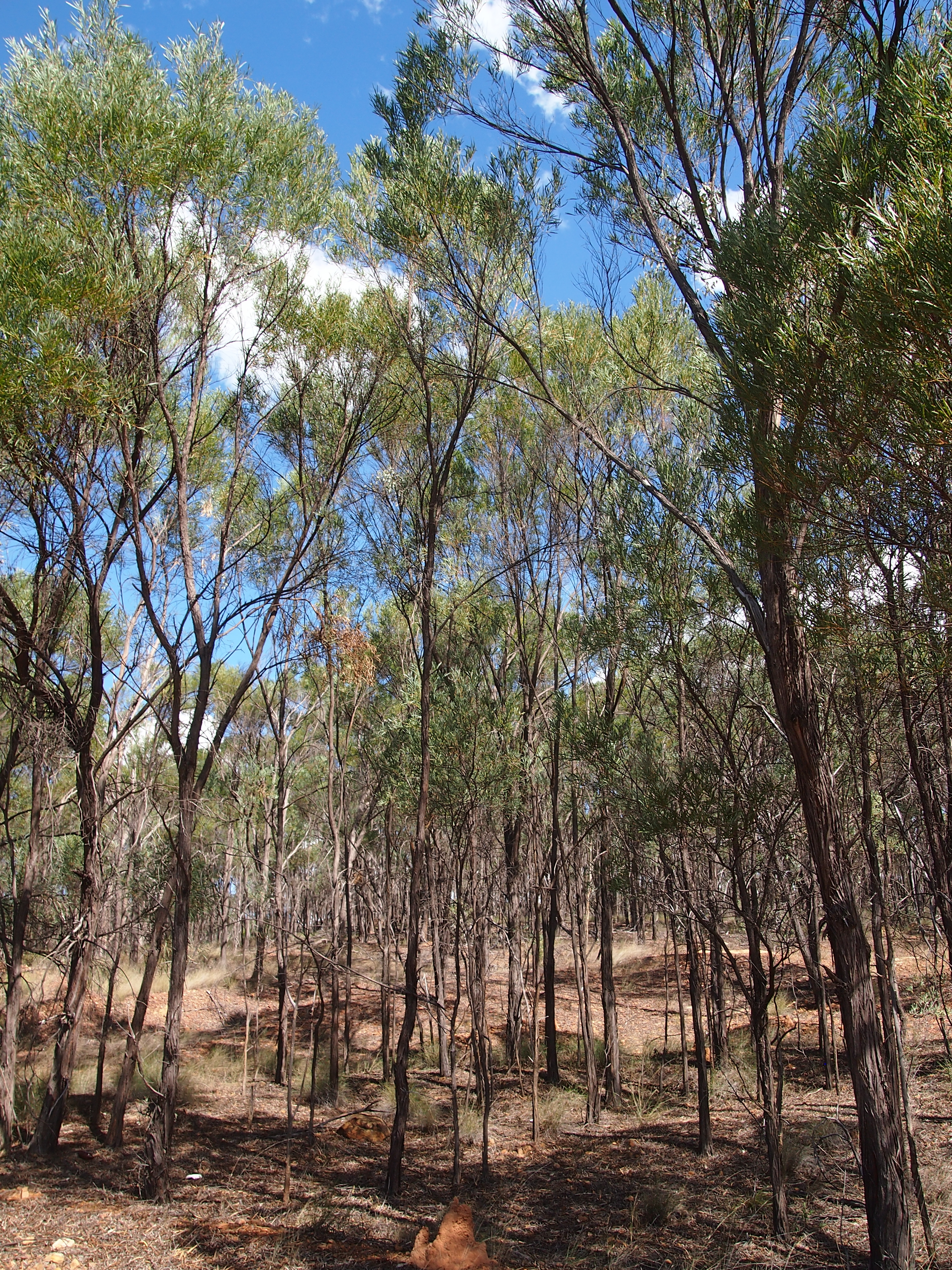 Lancewood (Acacia shirleyii) woodland